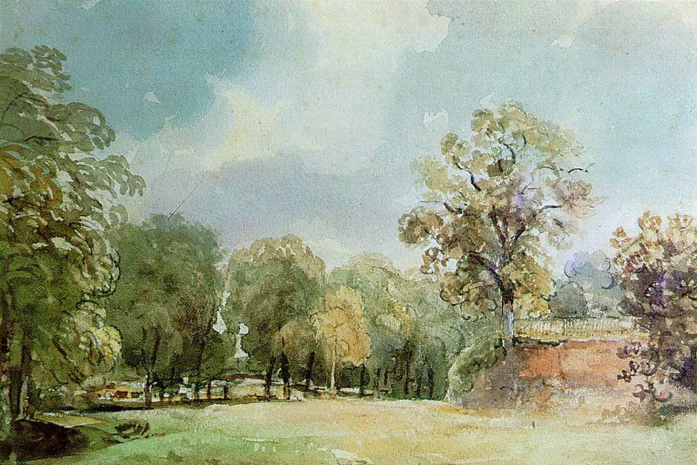 Landscape painting of Haugh Lane, Woodbridge, Suffolk, England